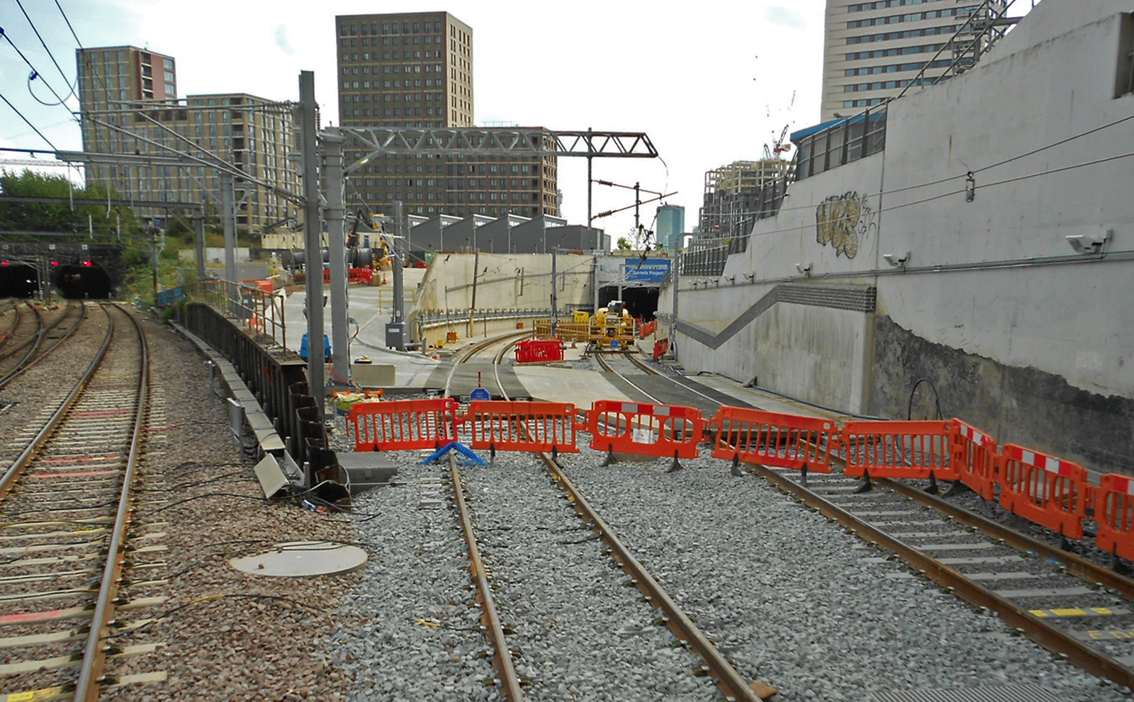 Viewed from Belle Isle junction, the entrance to Canal Tunnels had been largely completed by August 2014. (Gasworks Tunnel and the route to Kings Cross station are on the extreme left).